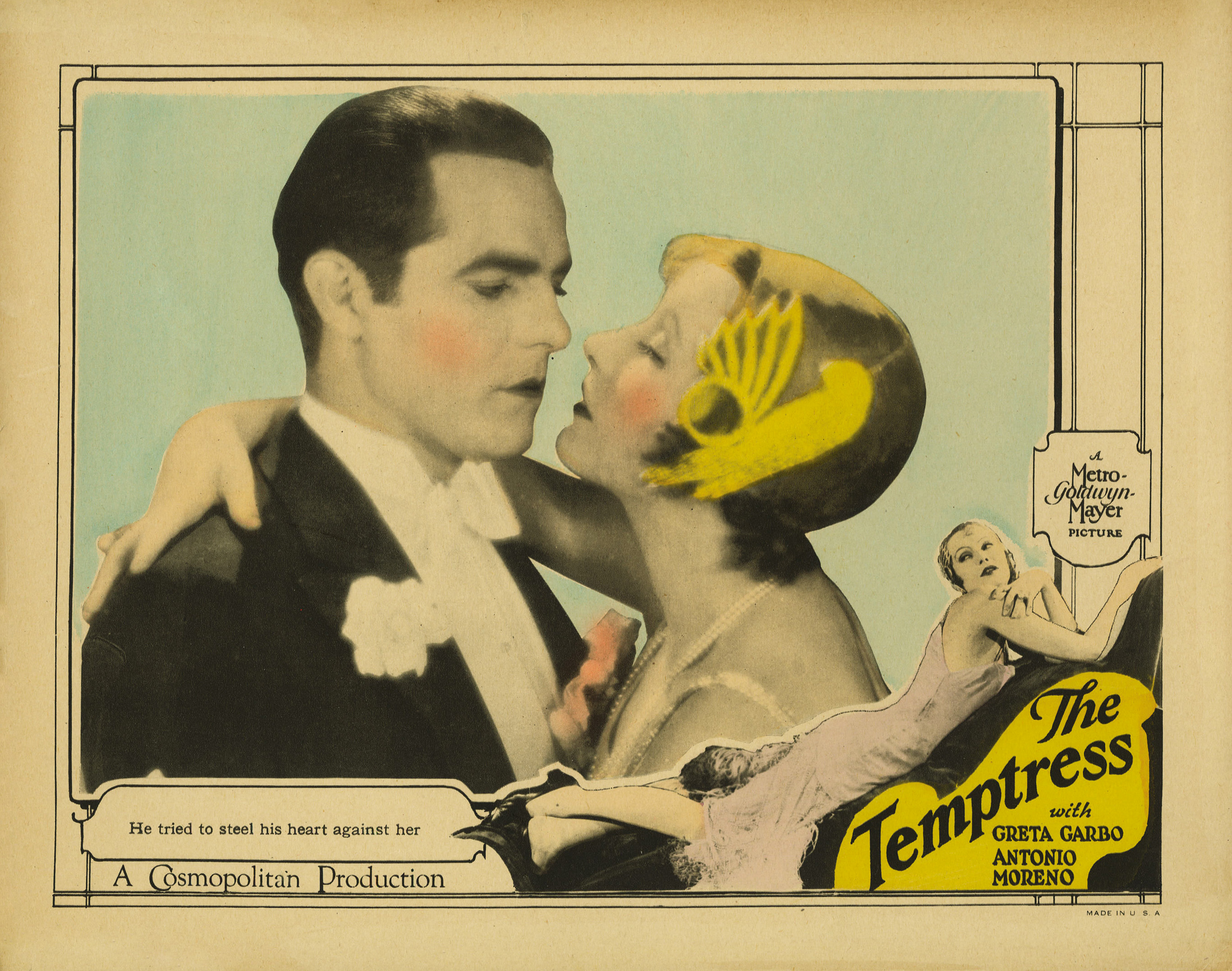 Lobby card for the American drama film The Temptress (1926).